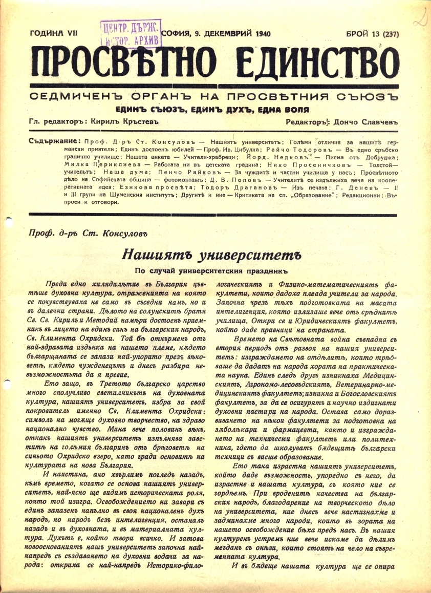 "Prosvetno edinstvo" - weekly edition of the Educational Union, Bulgaria. Year VII, Sofia, 9 December 1940, No. 13 (237)